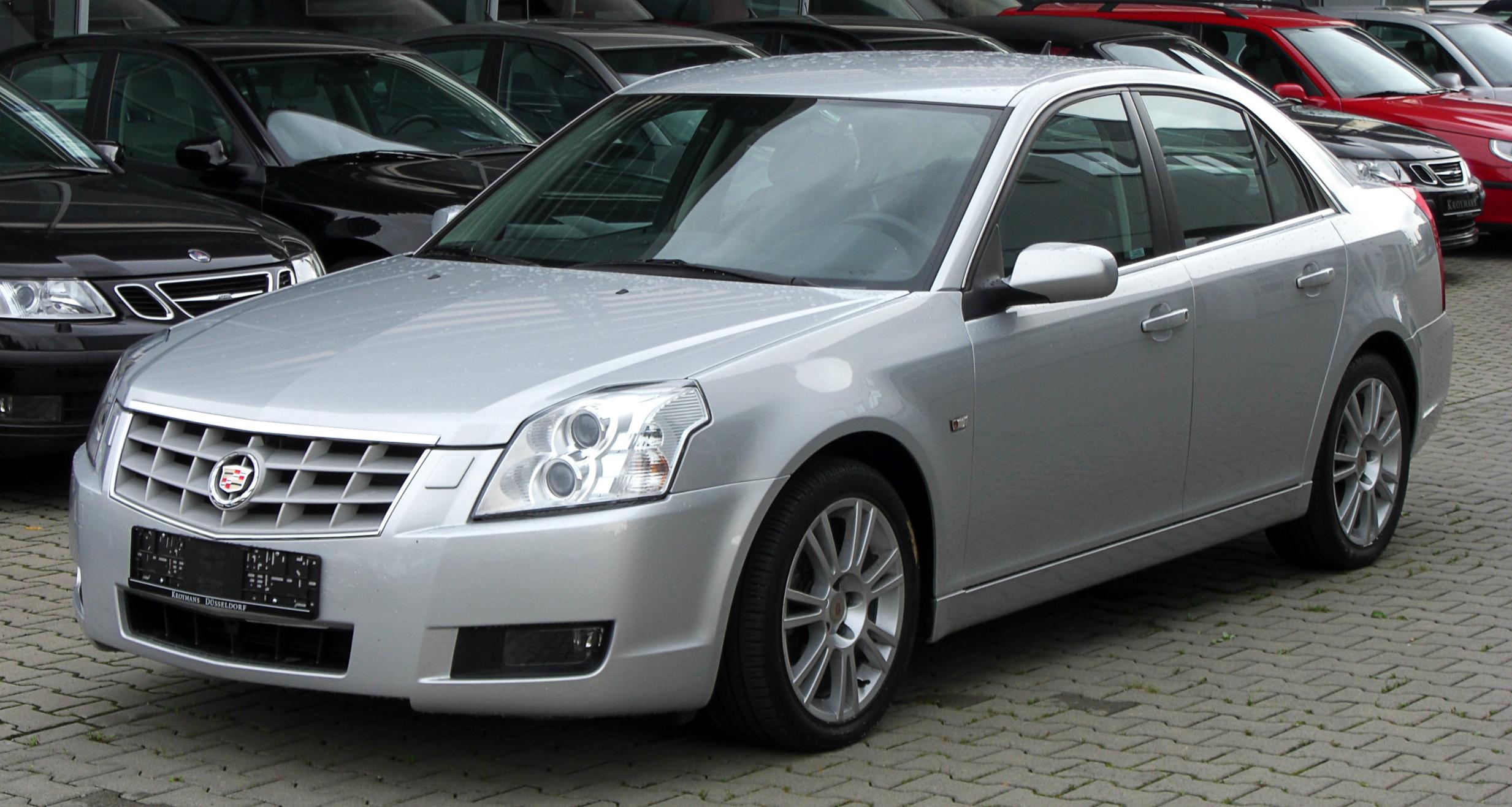 Cadillac BLS